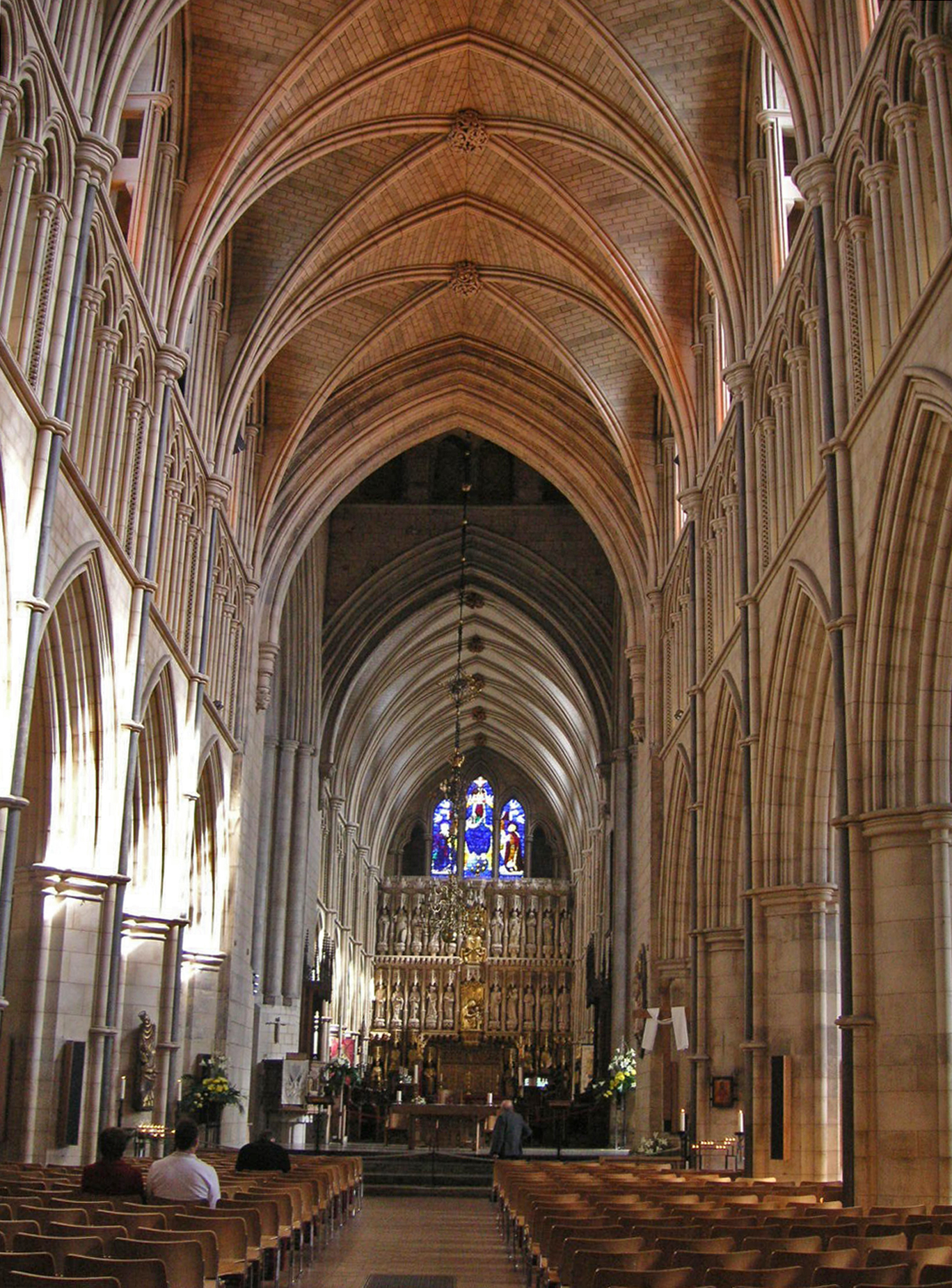 Southwark Cathedral: the choir was built by Richard Mason, 1208-35, the nave was rebuilt 1889-97 by Sir Arthur Blomfield